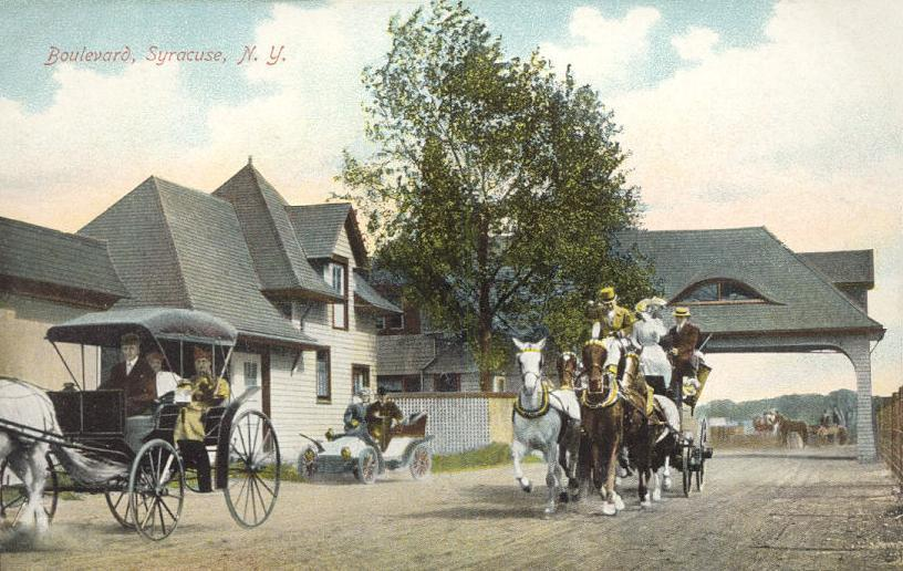 View of the Boulevard, Syracuse, New York; from a c. 1908 postcard published by the Metropolitan News Company, Boston, Massachusetts.